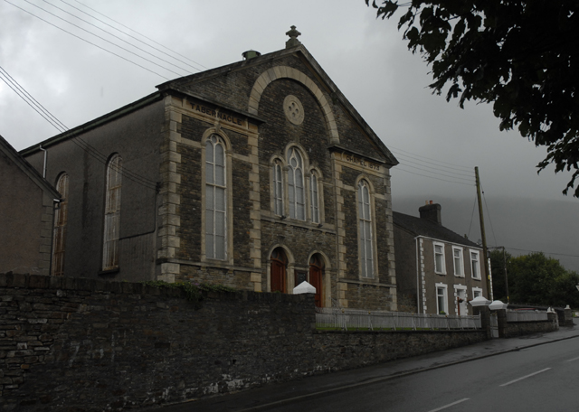 Tabernacle Chapel in Cwmafon.